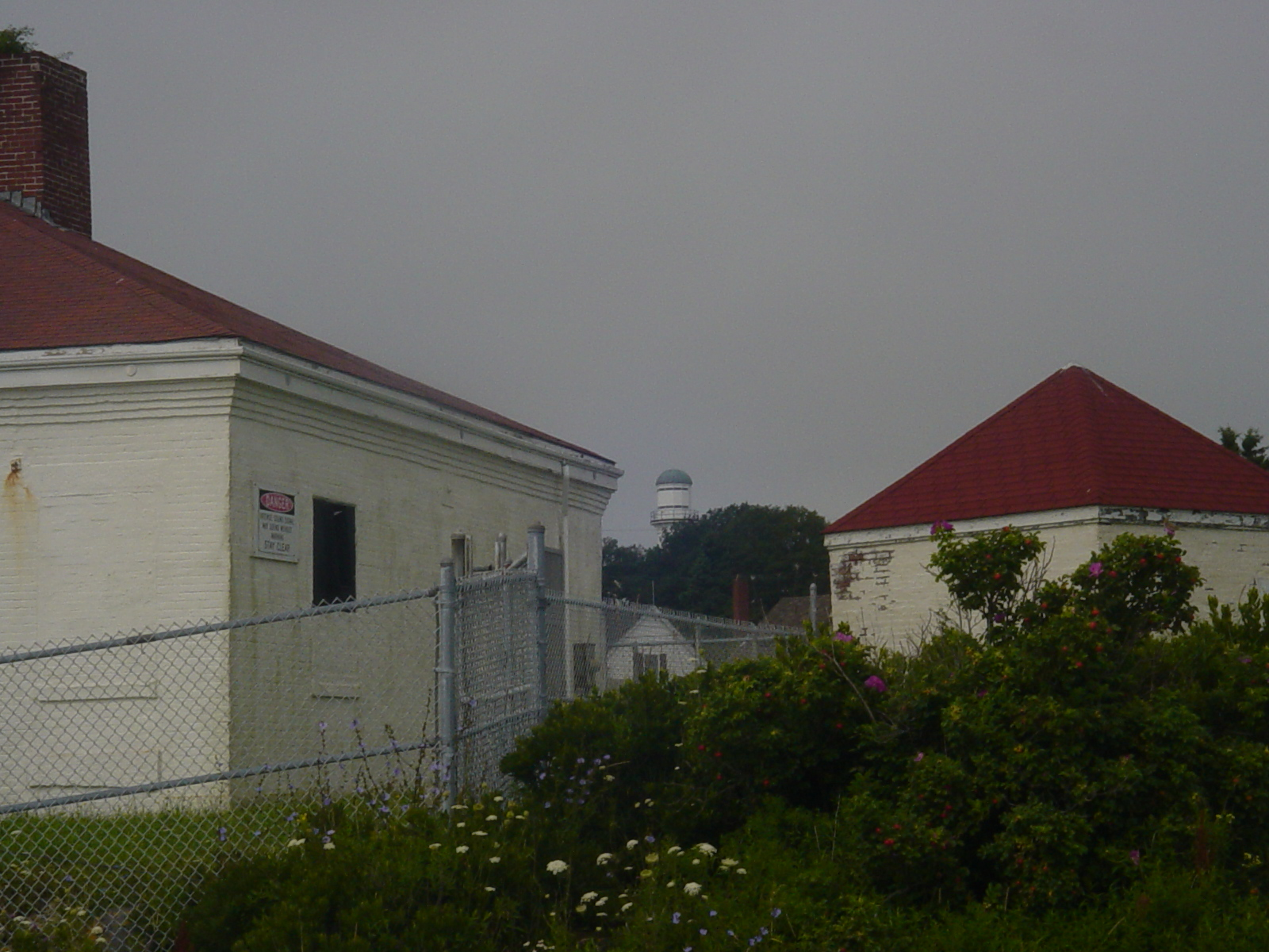 Cape Elizabeth Lights at Two Lights State Park Western light & eastern light whistle house.